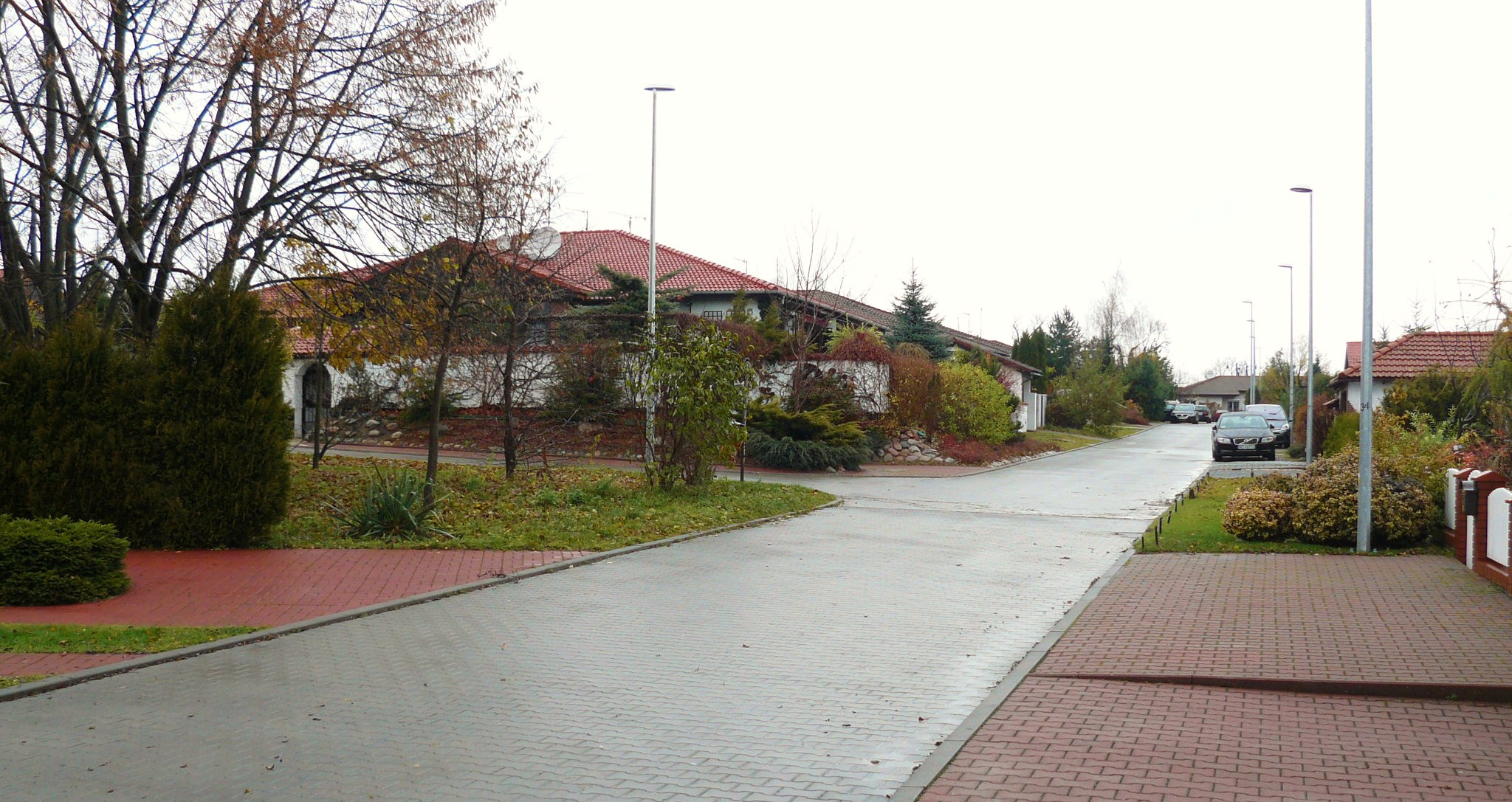 Lubczykowa Gora District, Poznan.